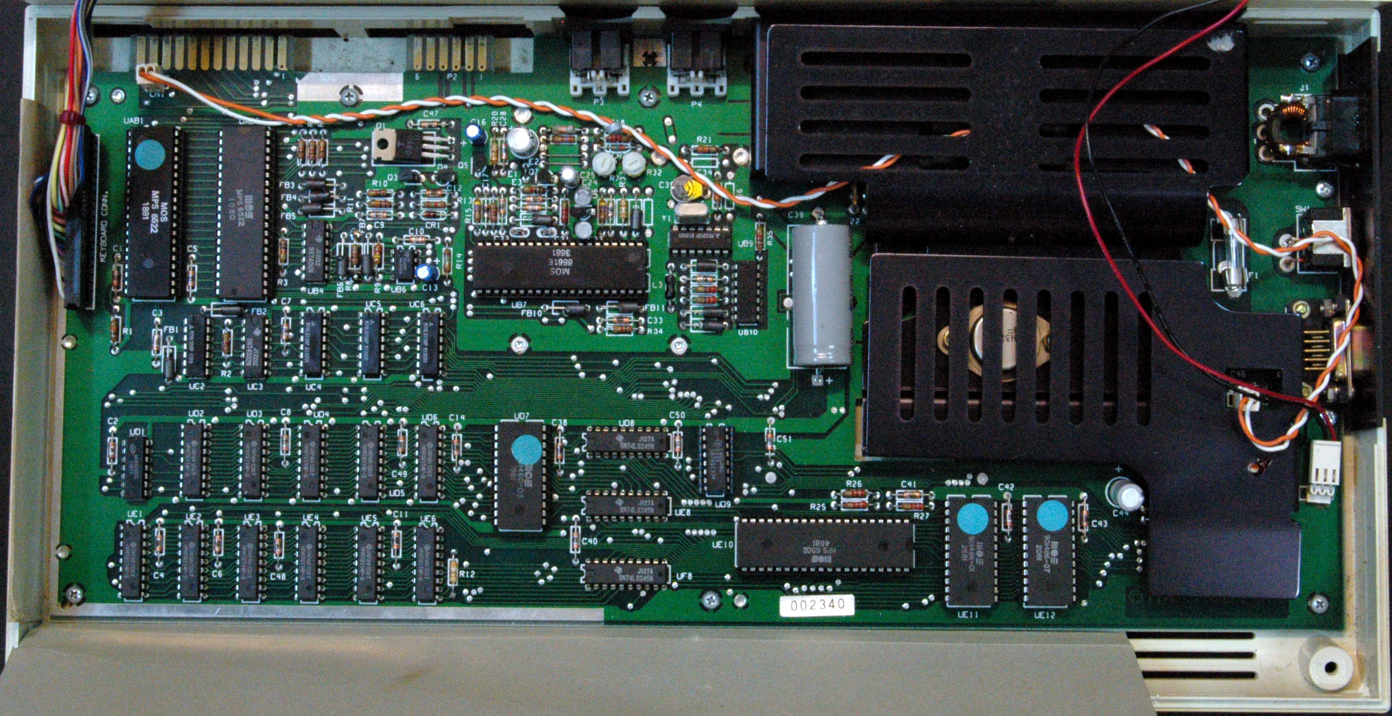 Commodore VIC-20 Mainboard, ASSY No. 324003